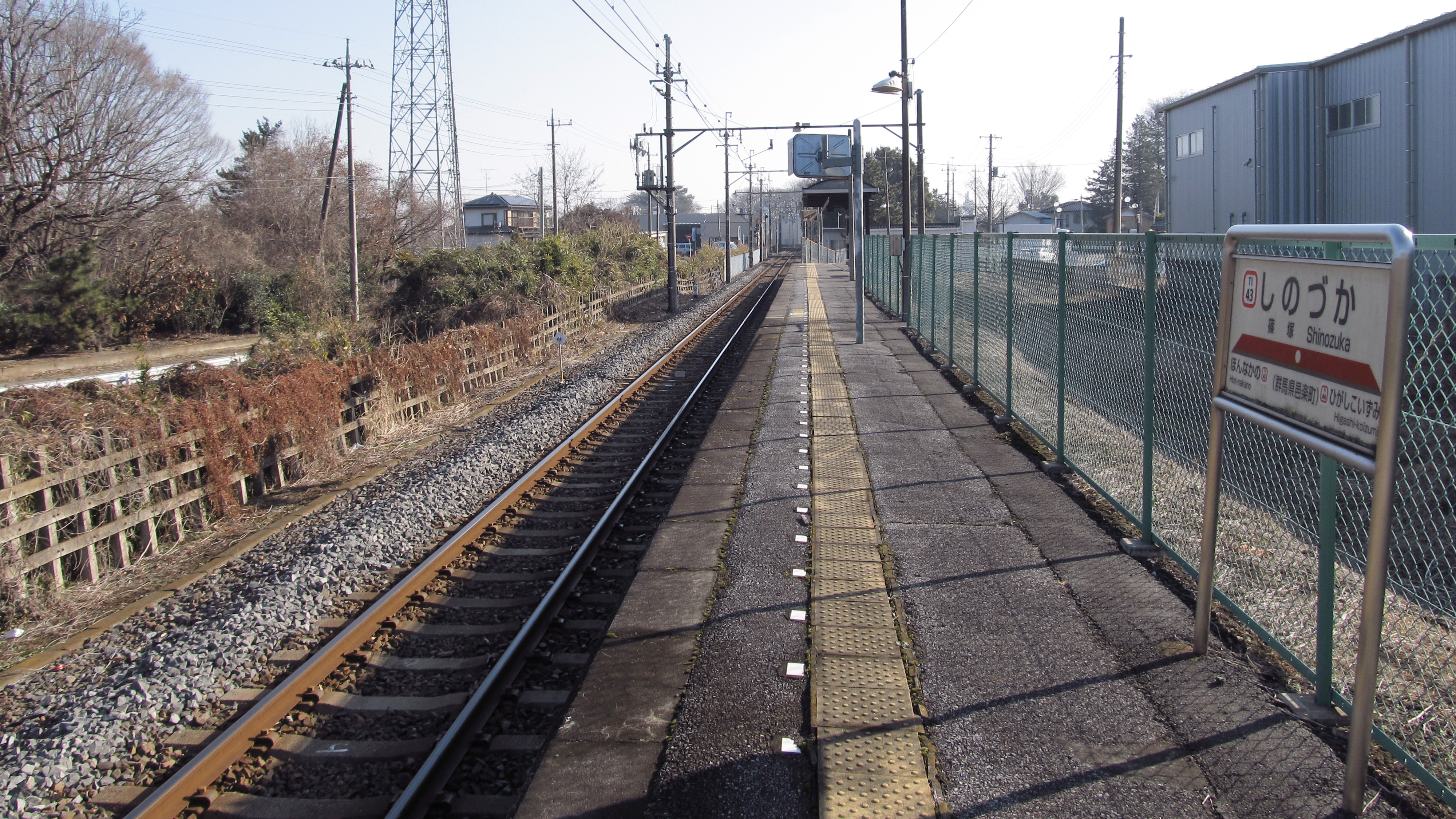 The platform at Shinozuka Station on the Tobu Railway Koizumi Line in Ōra town, Gumma prefecture, Japan